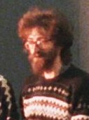 Jonathan Mestel, Chess Olympiad 1988 at Thessaloniki